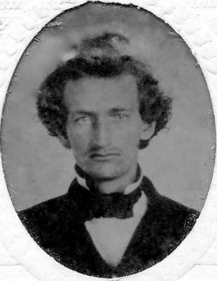 James M. Hinds from family archive